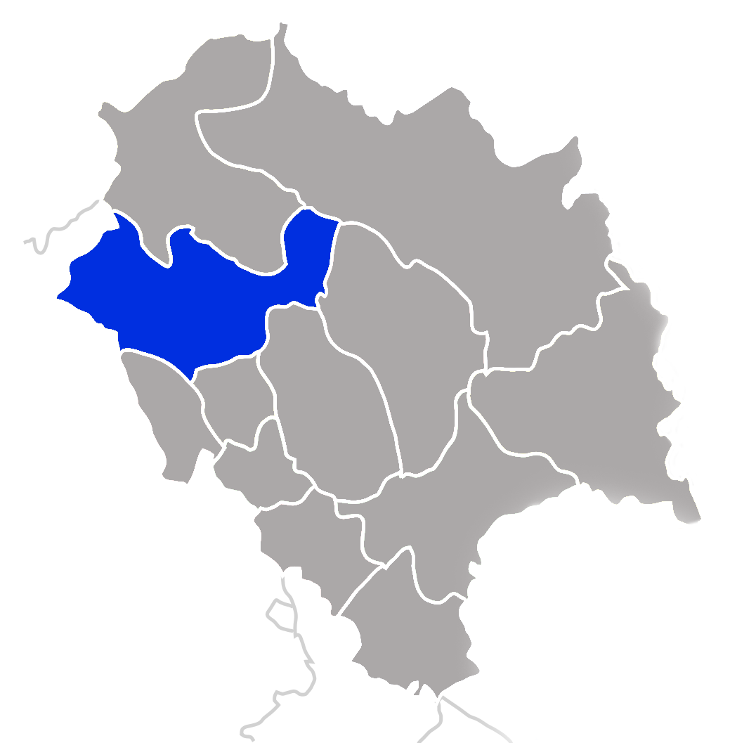 {en|1=Kangra district of Himachal Pradesh